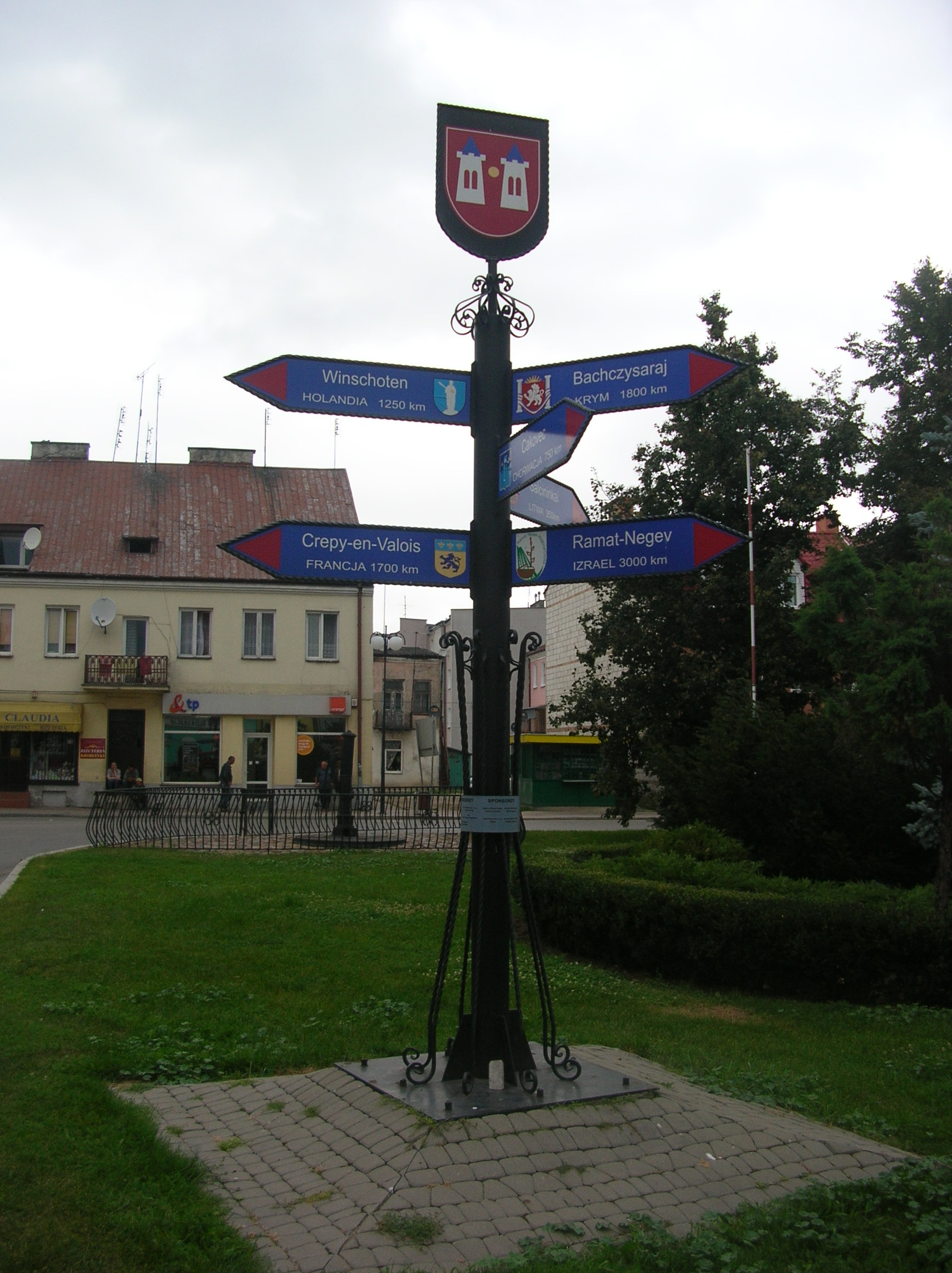 Market Square Płońsk, Poland